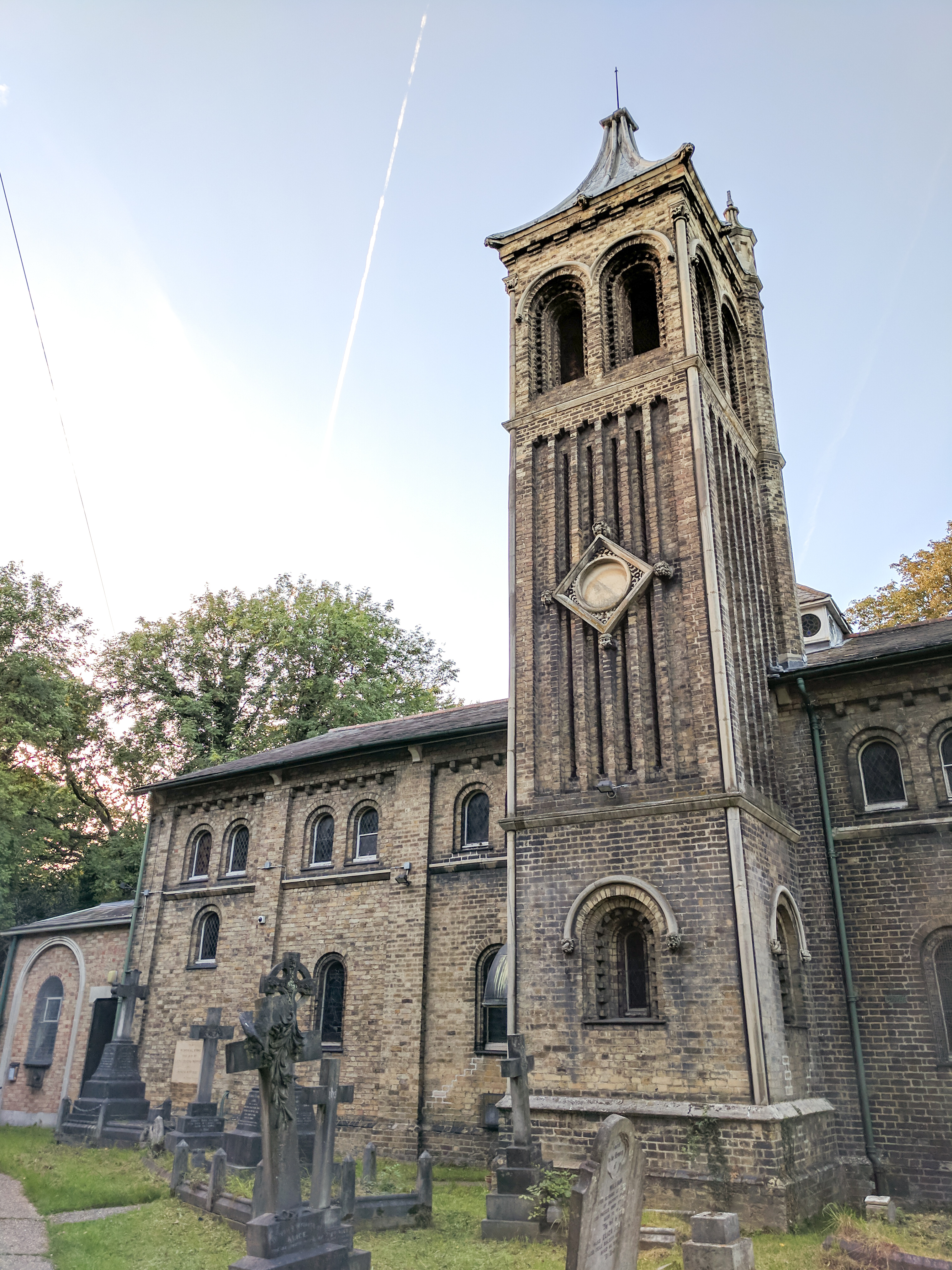 The church of St Peter-in-the-Forest, Walthamstow. Wikidata has entry Q27087218 with data related to this item.